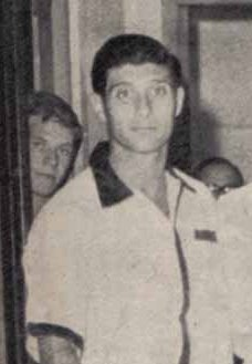 Cropped image of José Yudica in 1966 at Platense, taken from a public domain image.